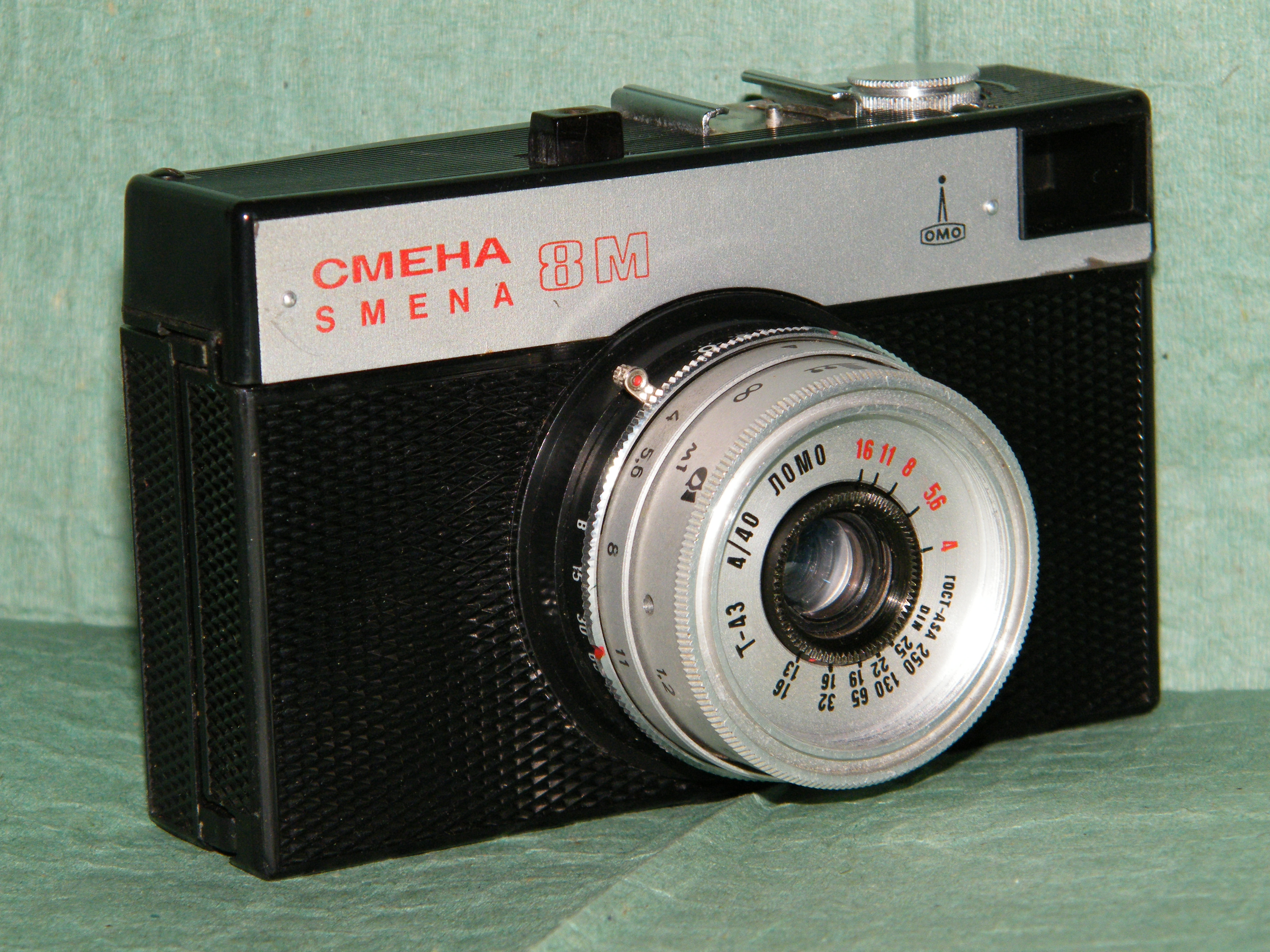 Smena 8M